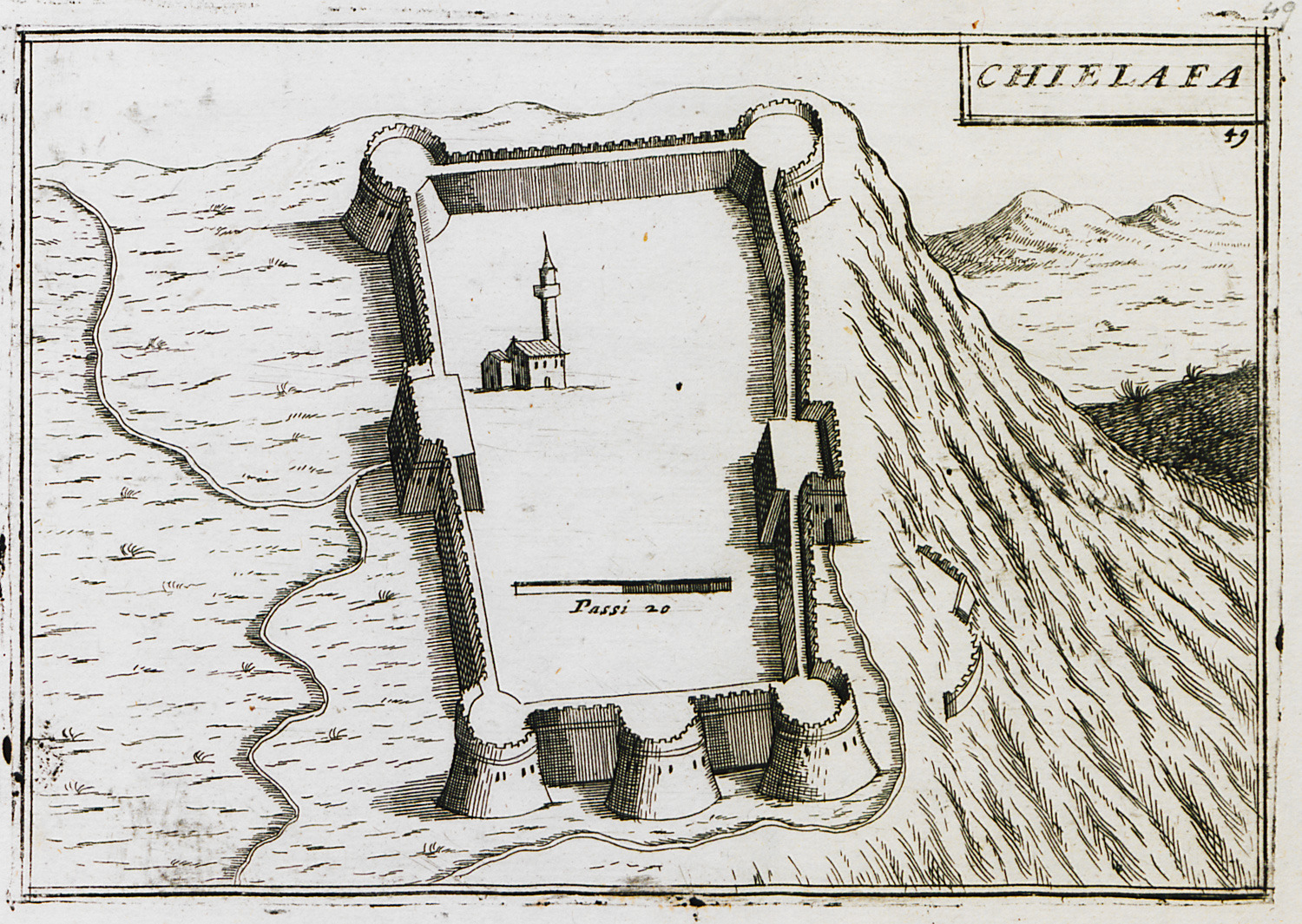 Vincenzo Coronelli. Memoire istoriografiche delli regni della Morea e Negroponte…, Venice, 1686